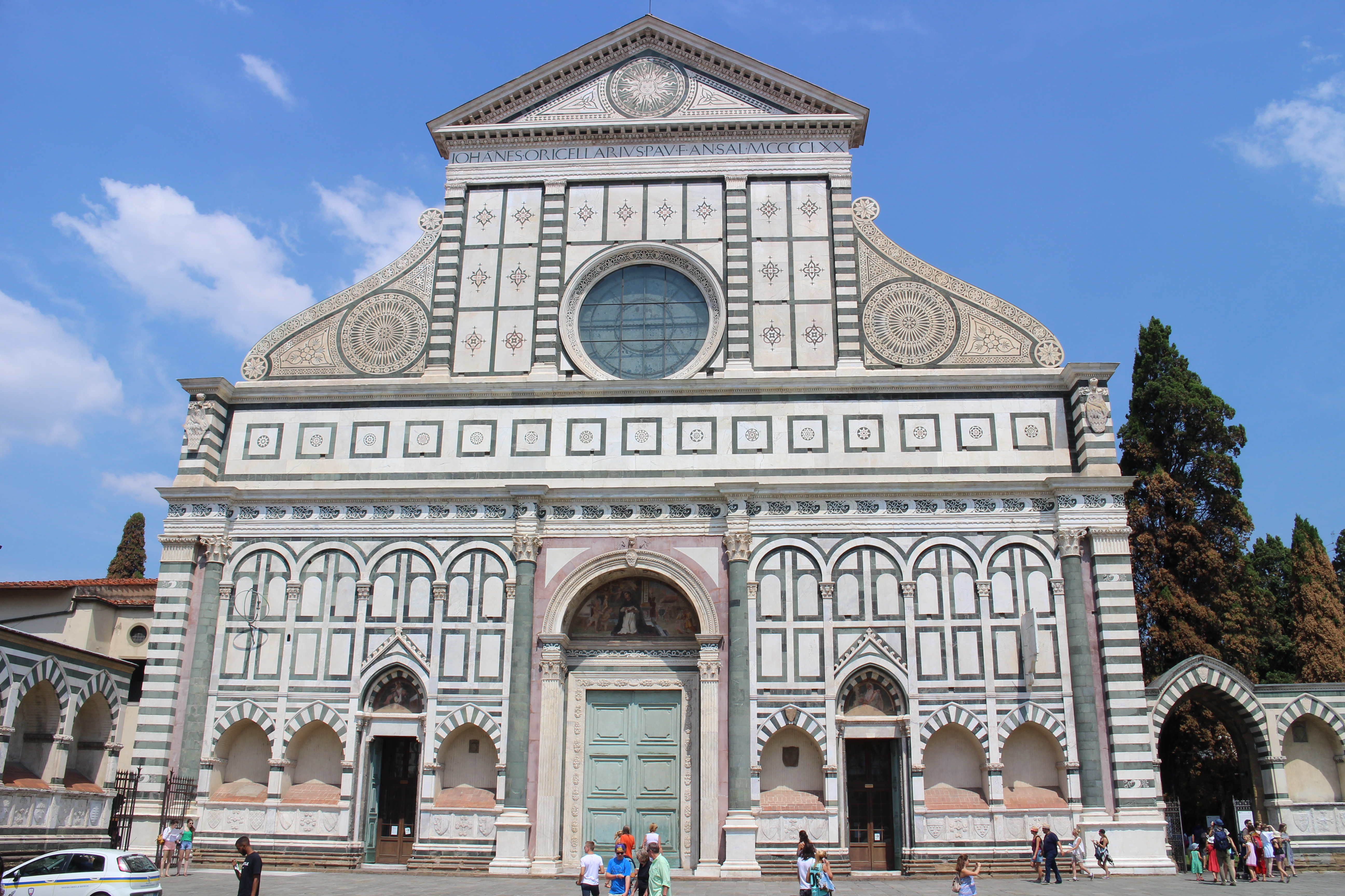 Santa Maria Novella (Florence) - Facade